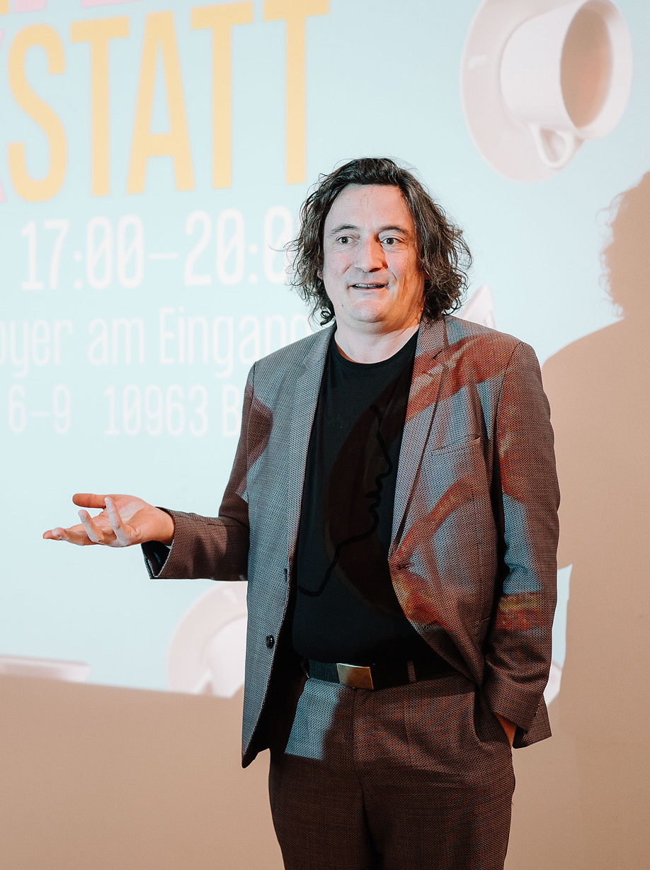 Andreas Gebhard at an open workshop in 2020